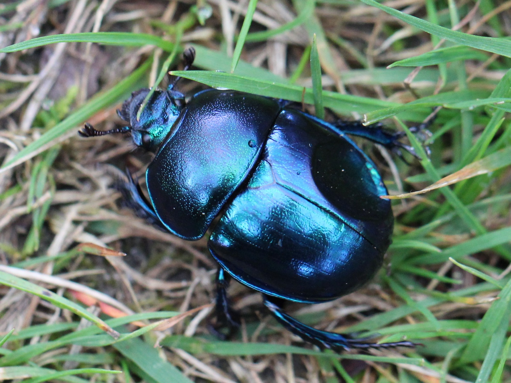 Trypocopris vernalis